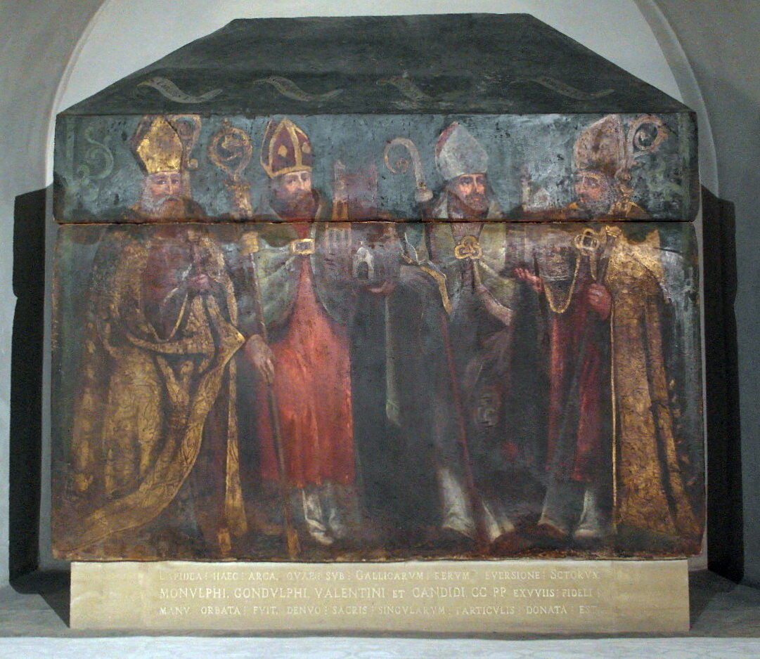 View of a stone reliquary chest in the vieringscrypte ("crossing crypt"), one of four crypts in the Basilica of Saint Servatius in Maastricht, the Netherland. The burrial chest is probably of late-Roman origin (4th c?); the paintwork is Medieval. It was originally used to contain the relics of four holy bishops of Tongeren and Maastricht (Candidus, Gondulph, Valentinus and Monulph), who are depicted on the chest in that order. In 1039, when the present church was dedicated with the emperor present, it was placed on Saint Peter's altar in the East Crypt (next door). In the 12th century the relics were placed in gilded reliquaries on the high altar and the chest was moved to its present location.